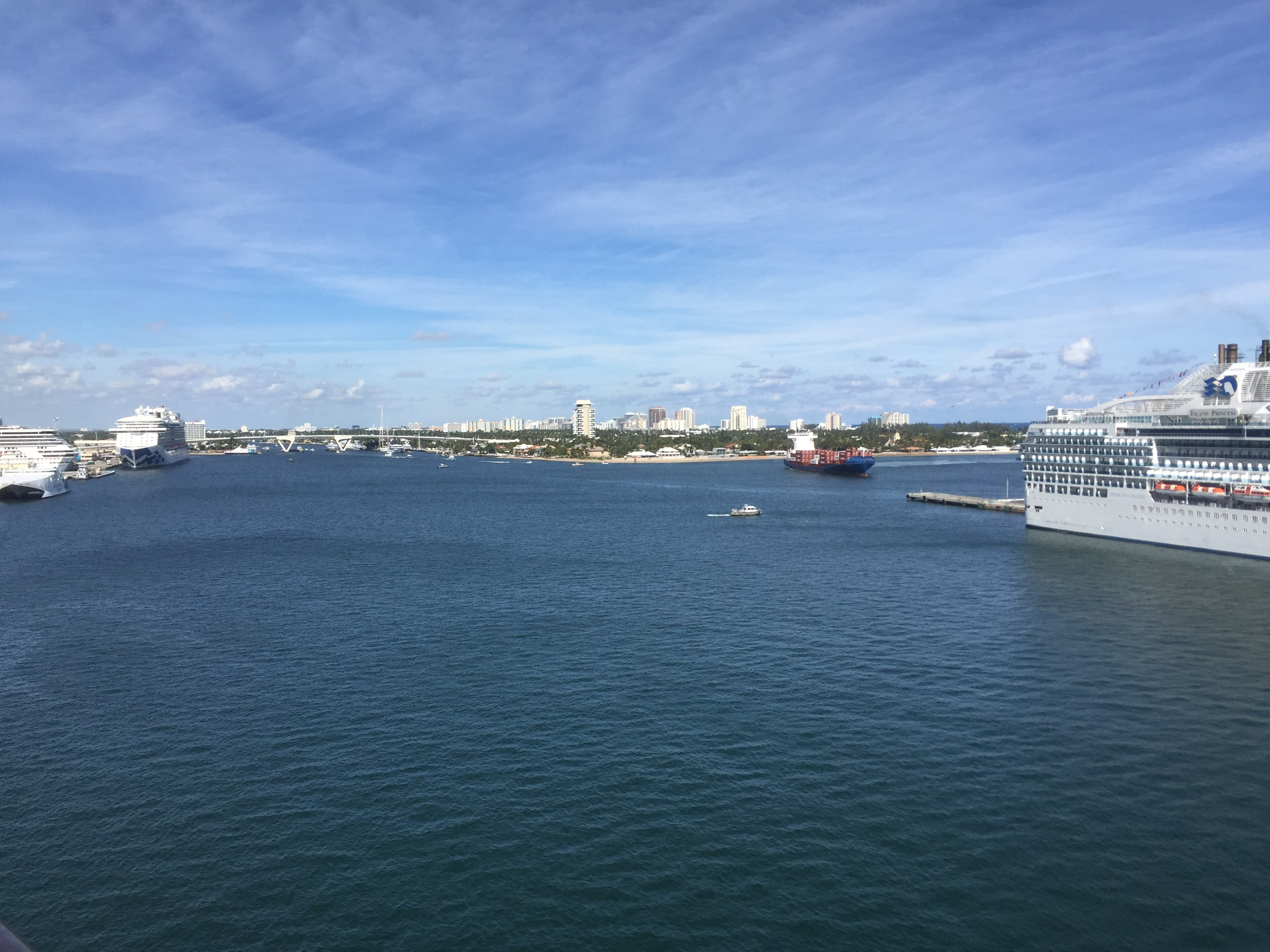 View from onboard a Cruiseship